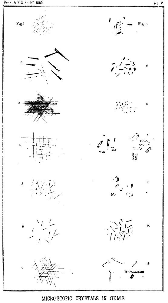 Inclusions in Minerals Observed by Issac lea